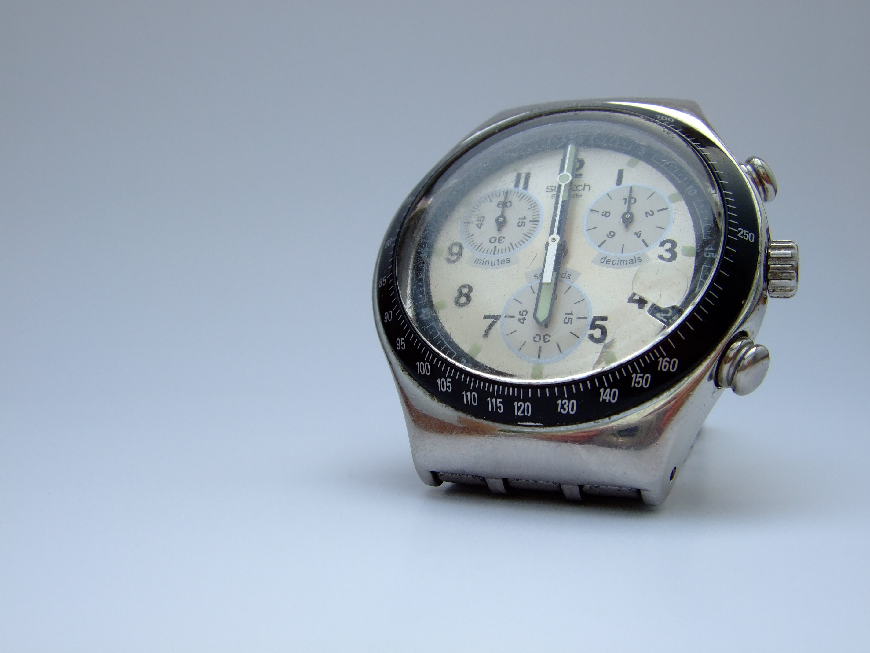 Another Swatch Irony, in colour, from a different angle